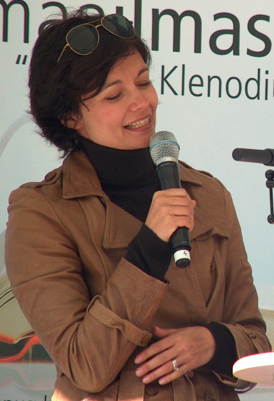 Kirsi Piha. Cropped from File:Kirsi Piha ja toimittaja Juha Roiha H3615 C.jpg